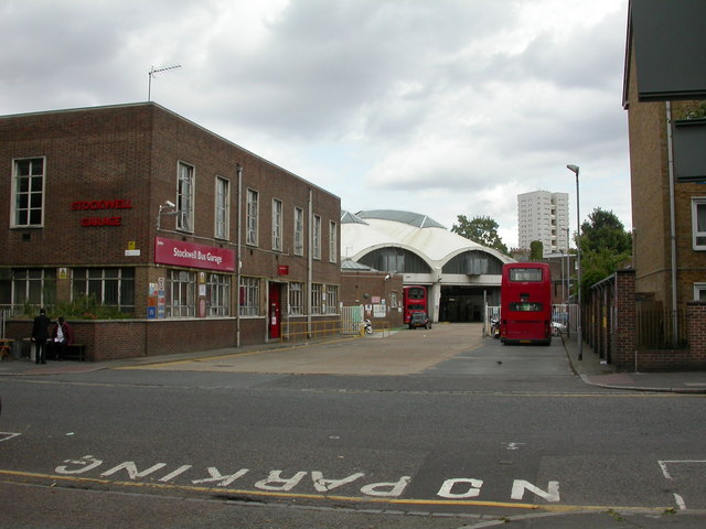 Stockwell Bus Garage Off Binfield Road; opened 1952, with the largest single span roof in Europe. Managed by London General.